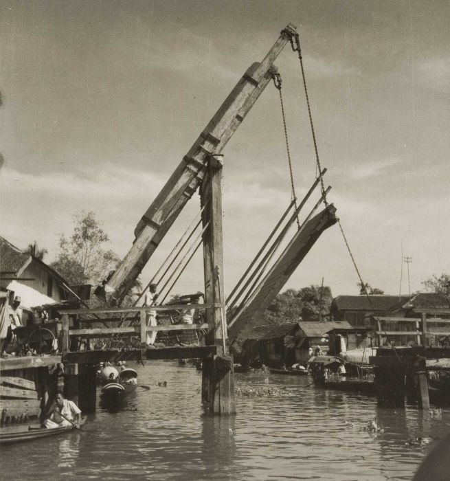 Drawbridge